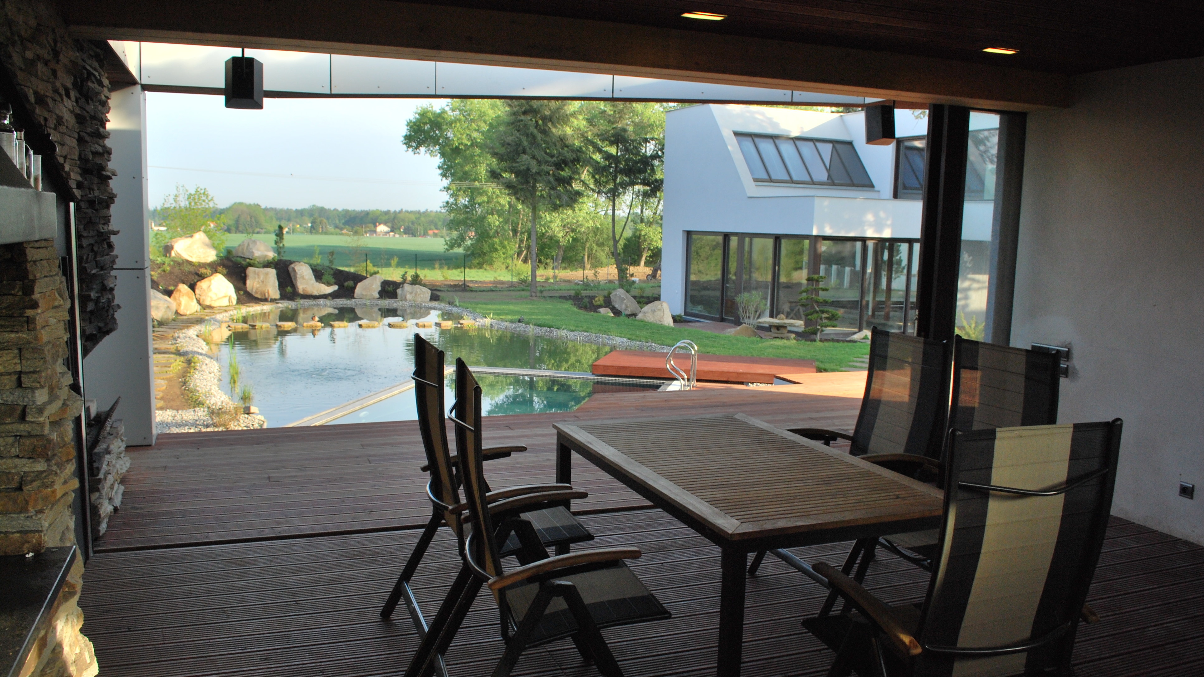 Interior of an intelligent building.